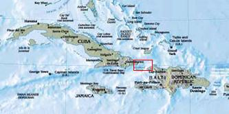 Made by DO'Neil in Paint, from the map from Caribbean.